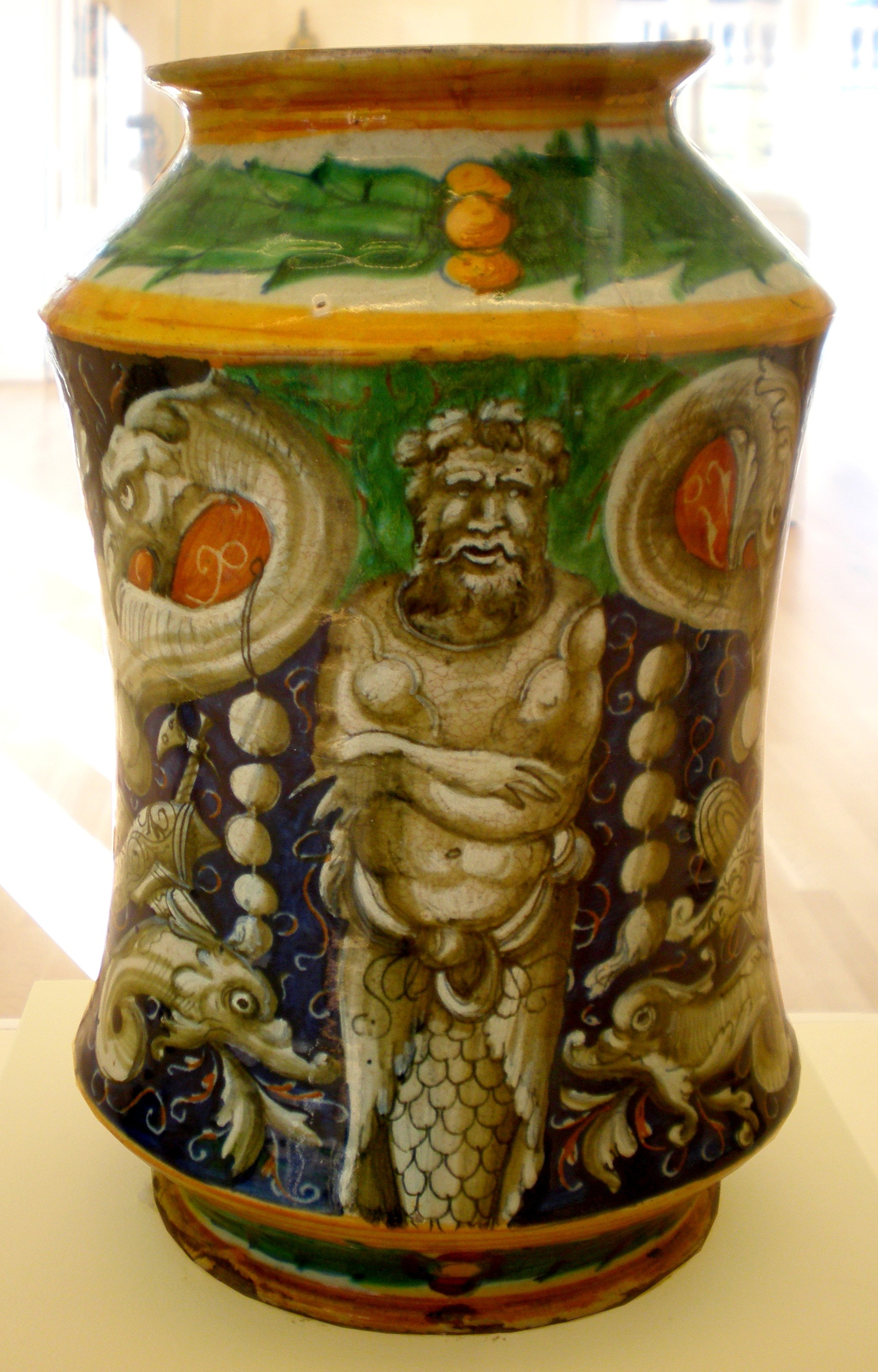 Albarello, maiolica, Italian, from Castel Durante, 1550-1555. On display at the California Palace of the Legion of Honor in San Francisco. 53.40.10